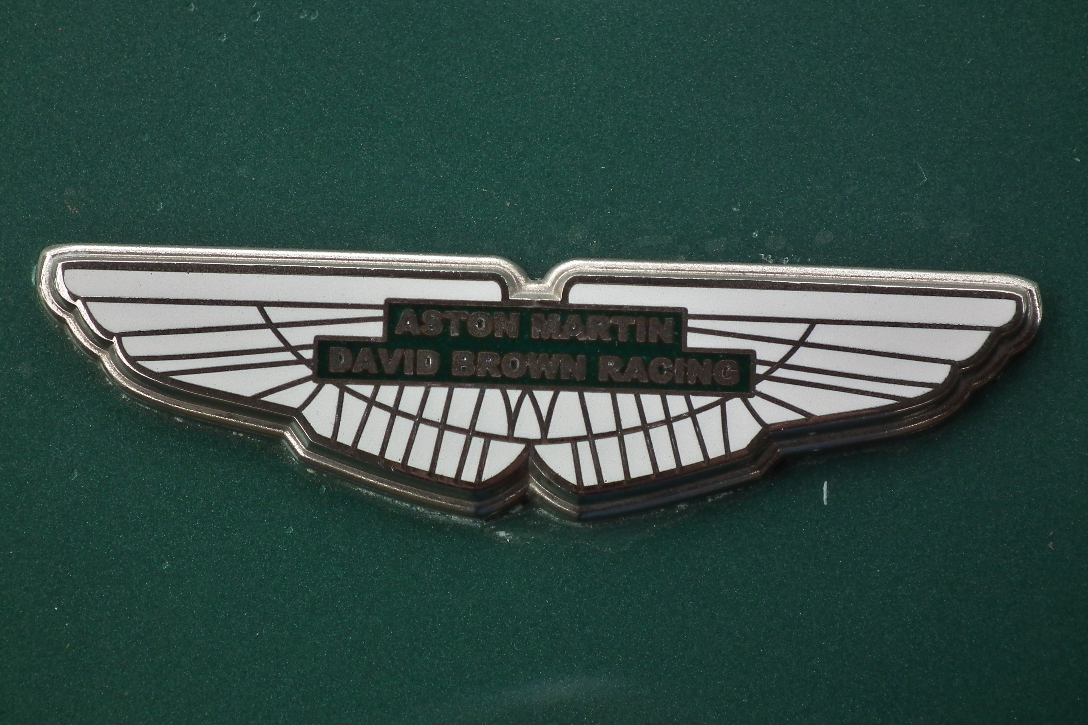 1967 Aston Martin DB6 - DBR2 roadster replica tail panel badge. Taken at Shannon's Eastern Creek Classic 2011, held at Eastern Creek Raceway Sydney.